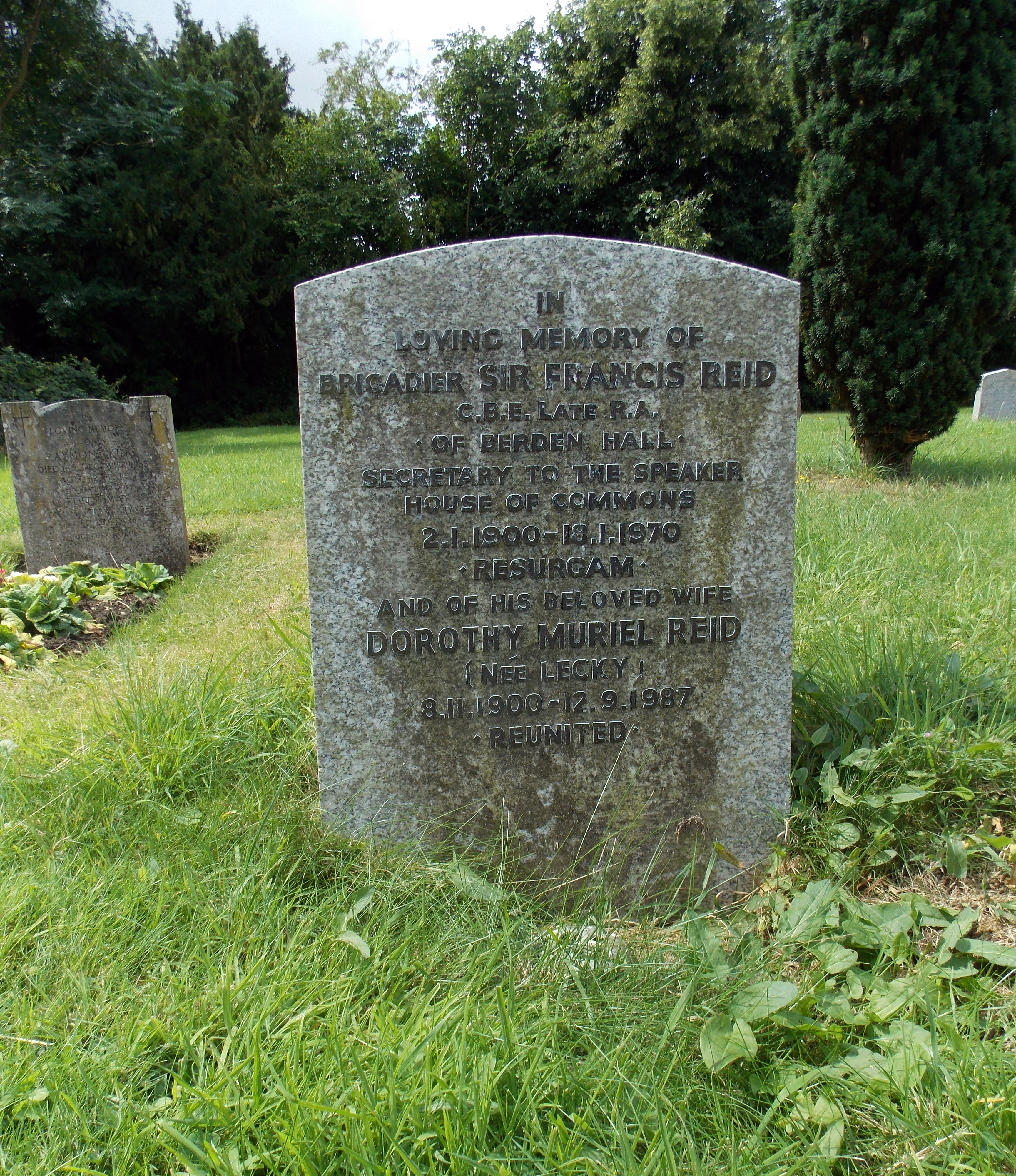 Grave stone for Brigadier Sir Francis Reid of Berden Hall